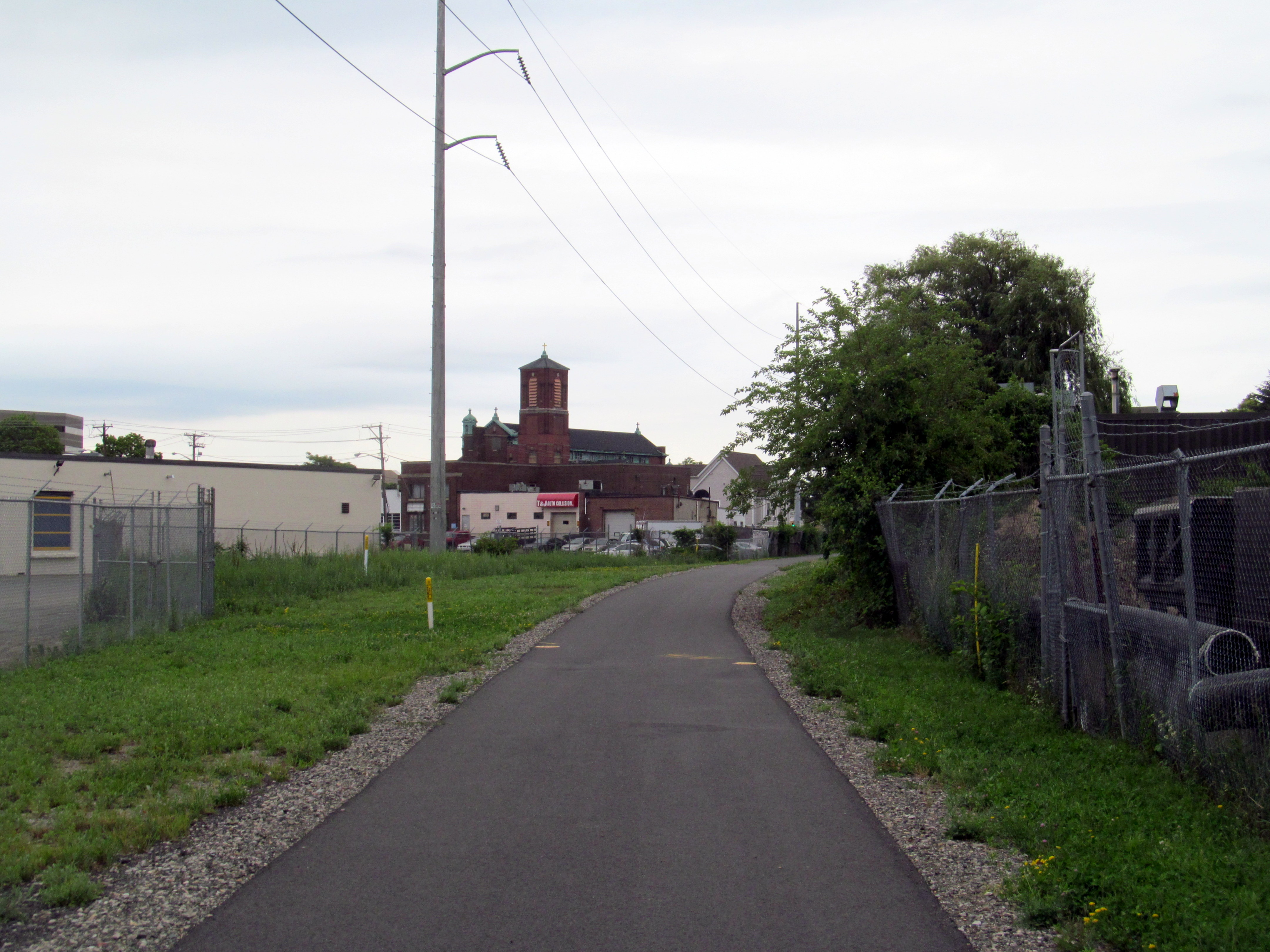 The Northern Strand Community Trail between Canal Street and Green Street in Malden, Massachusetts